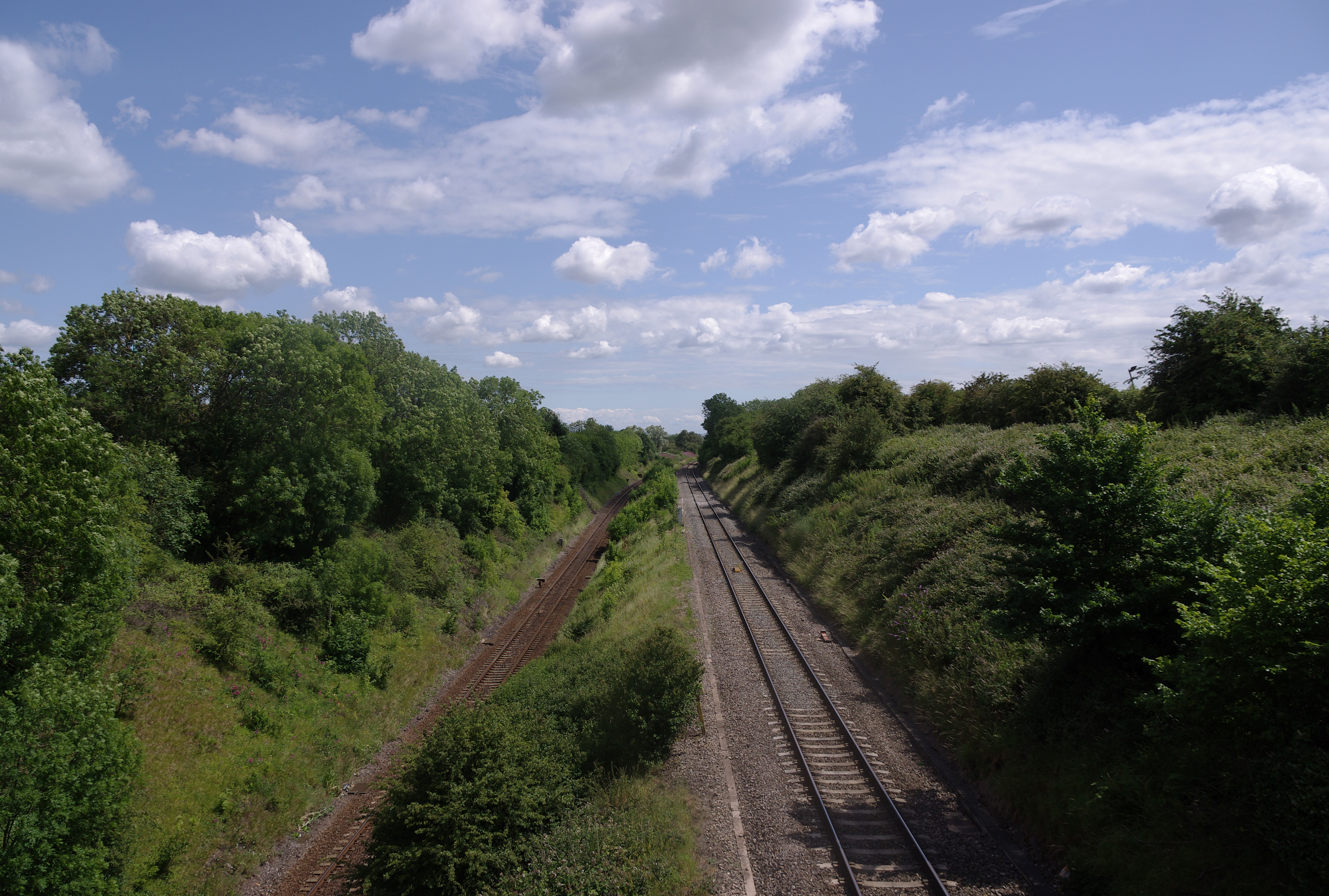 The eastern approach to the South Wales Main Line Patchway tunnels, viewed from the A38 bridge over the line.